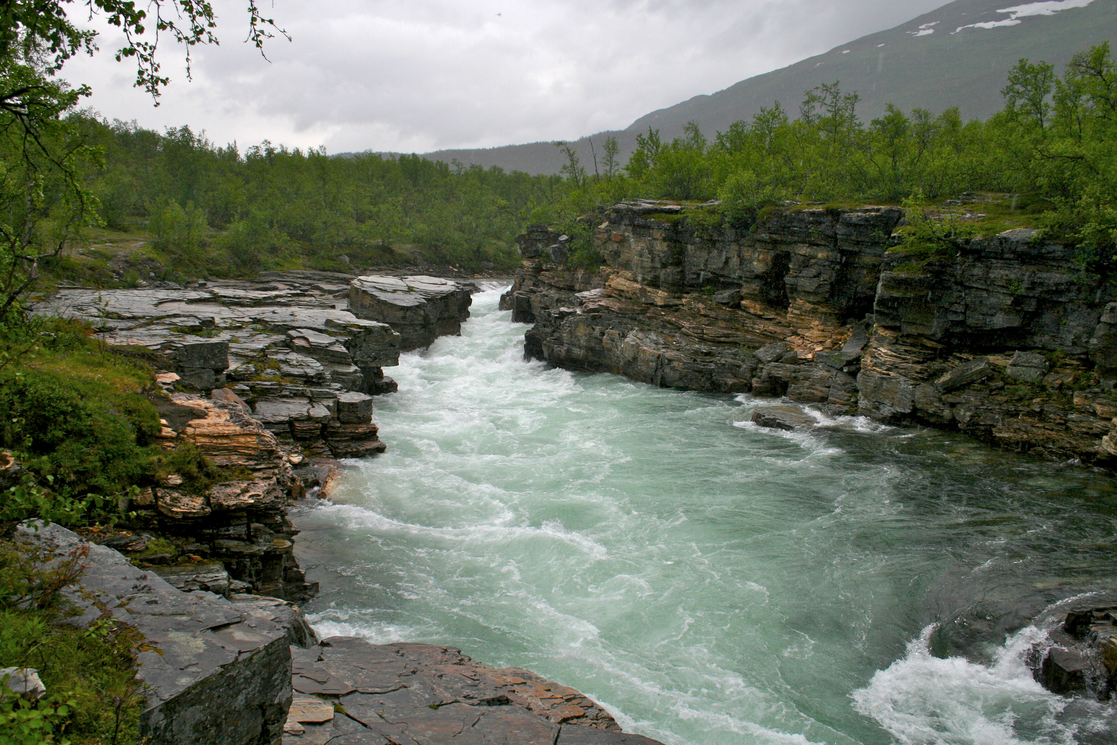 Abiskojåkka canyon